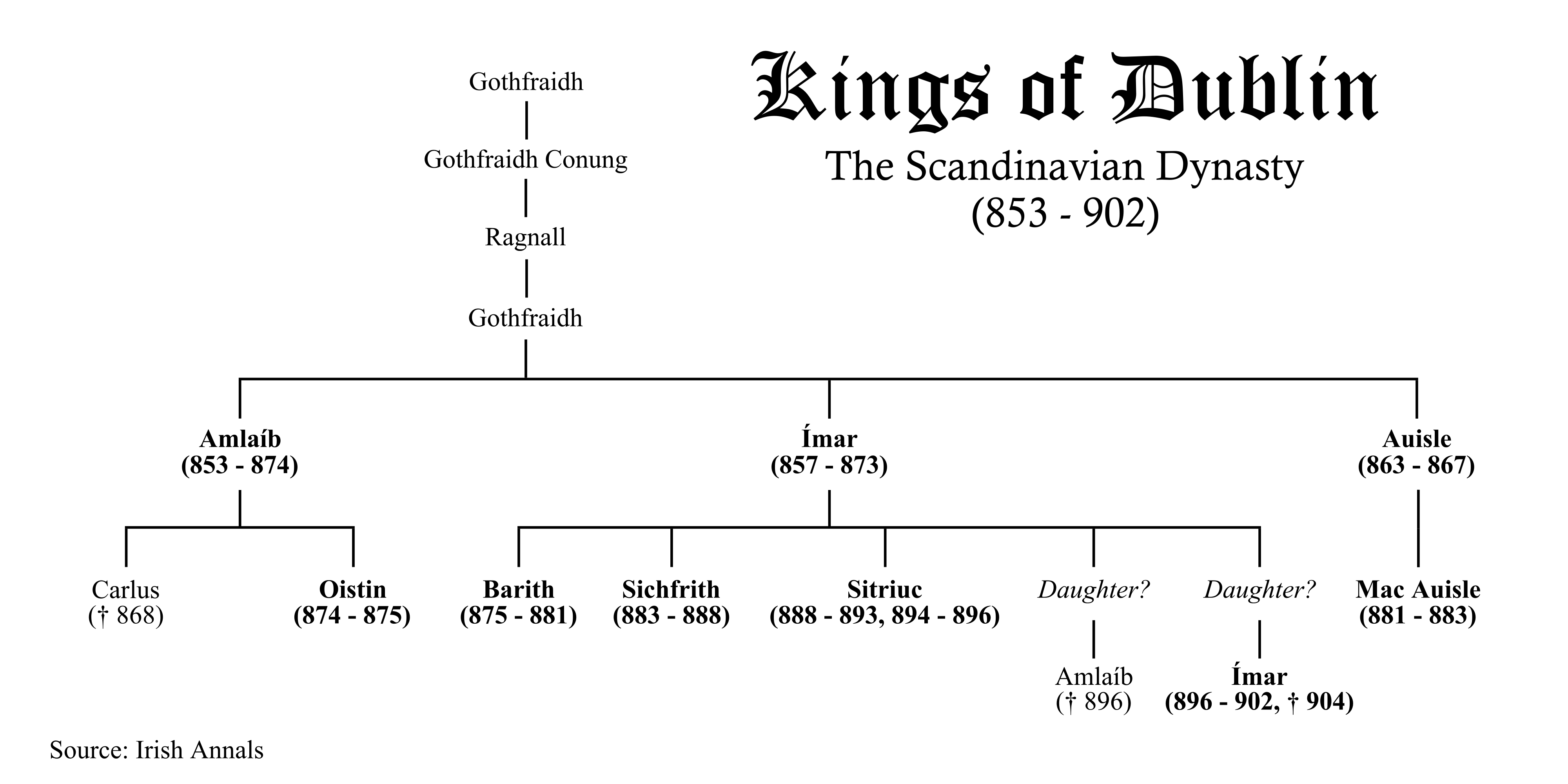 Family tree of the Clann Imair after various Irish annals